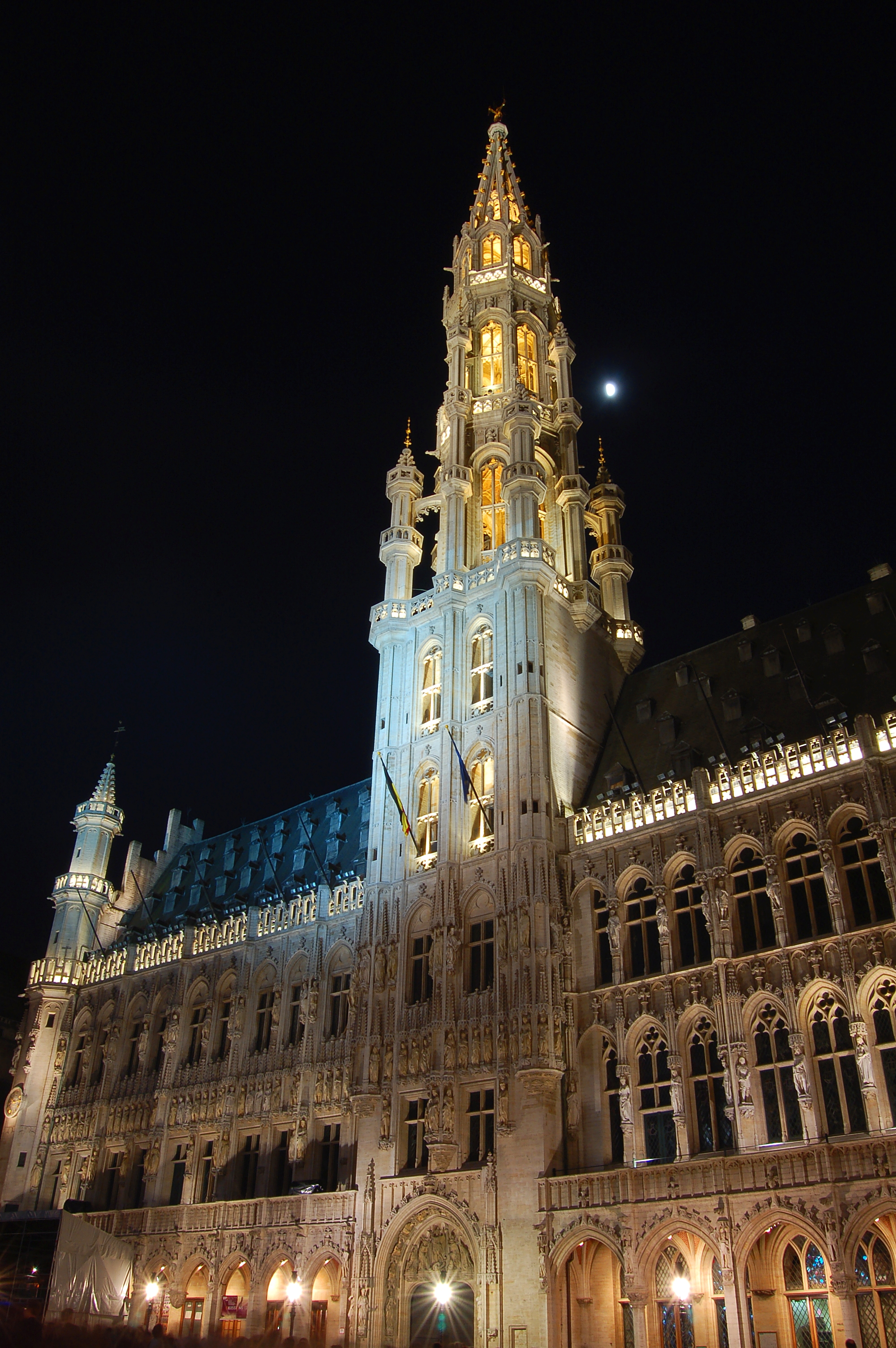 Town hall towers Brussels by night.